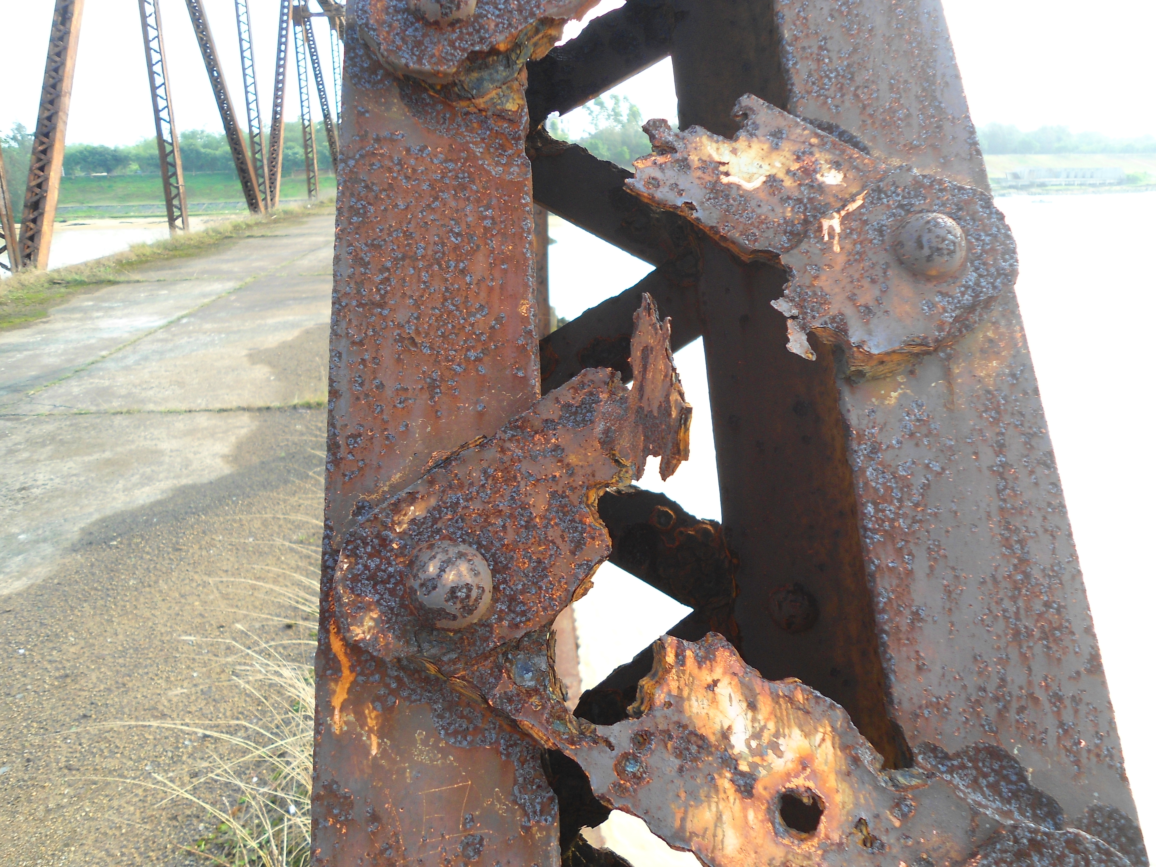 Nandu River Iron Bridge, Nandu River, Hainan, China